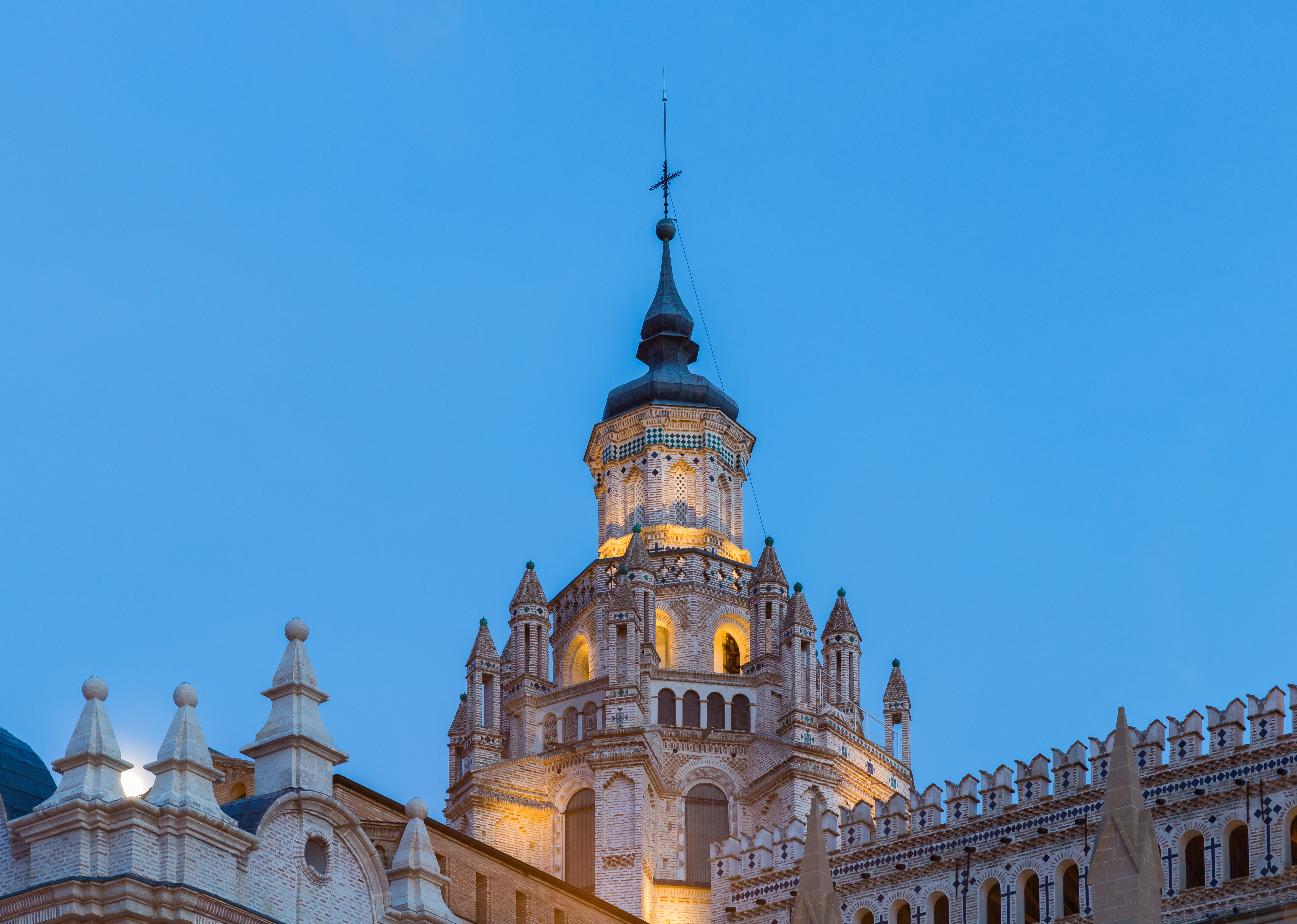 Cathedral our Our Lady of the Orchard, Tarazona, Spain